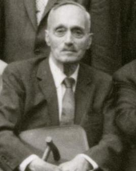 James Franck, July 1963 at Kopenhagen